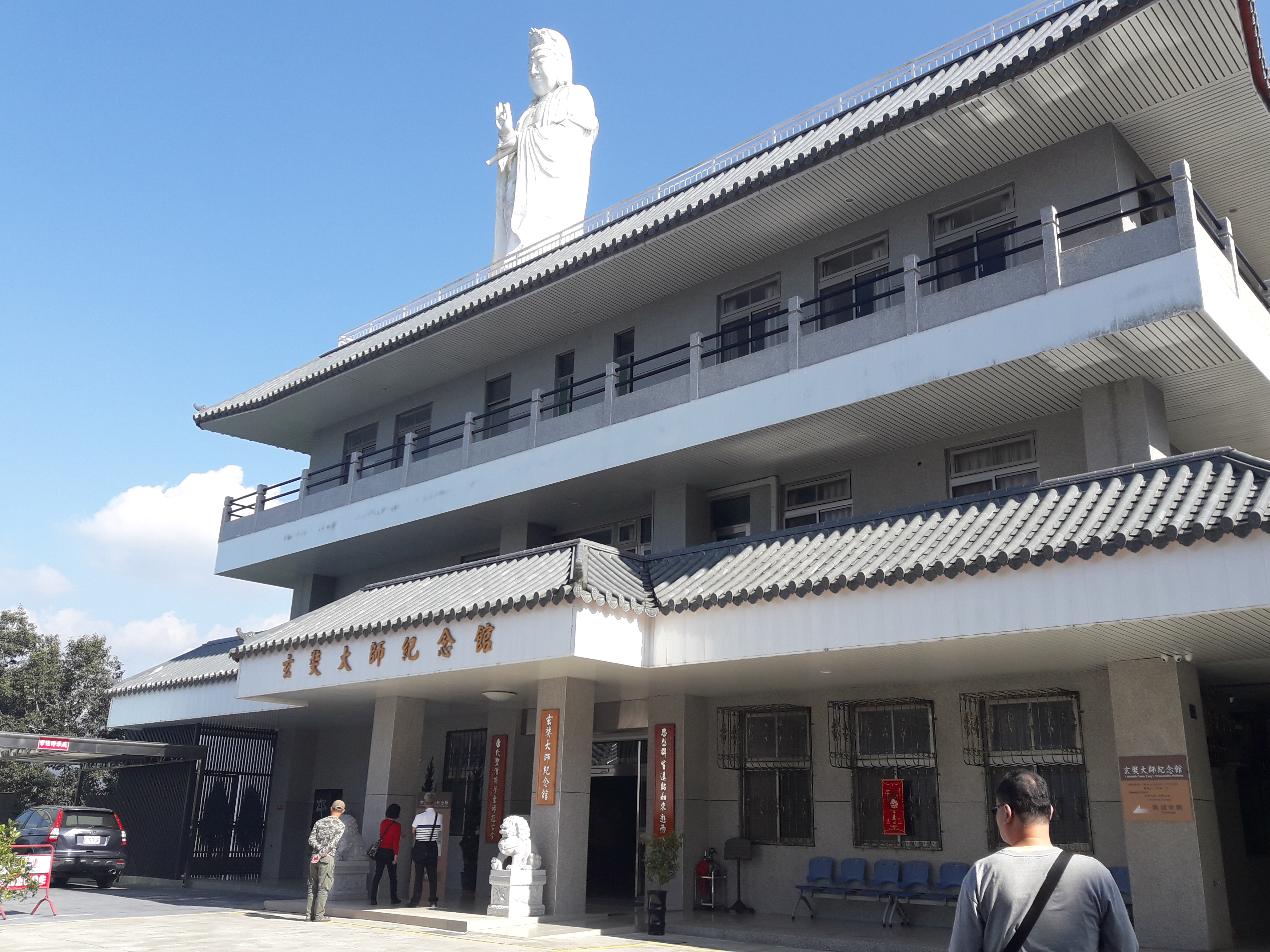 Master Xuanzang Memorial Museum, it's behind Xuanzang Temple 中文（台灣）: 玄奘大師的紀念館，位在玄奘寺後方